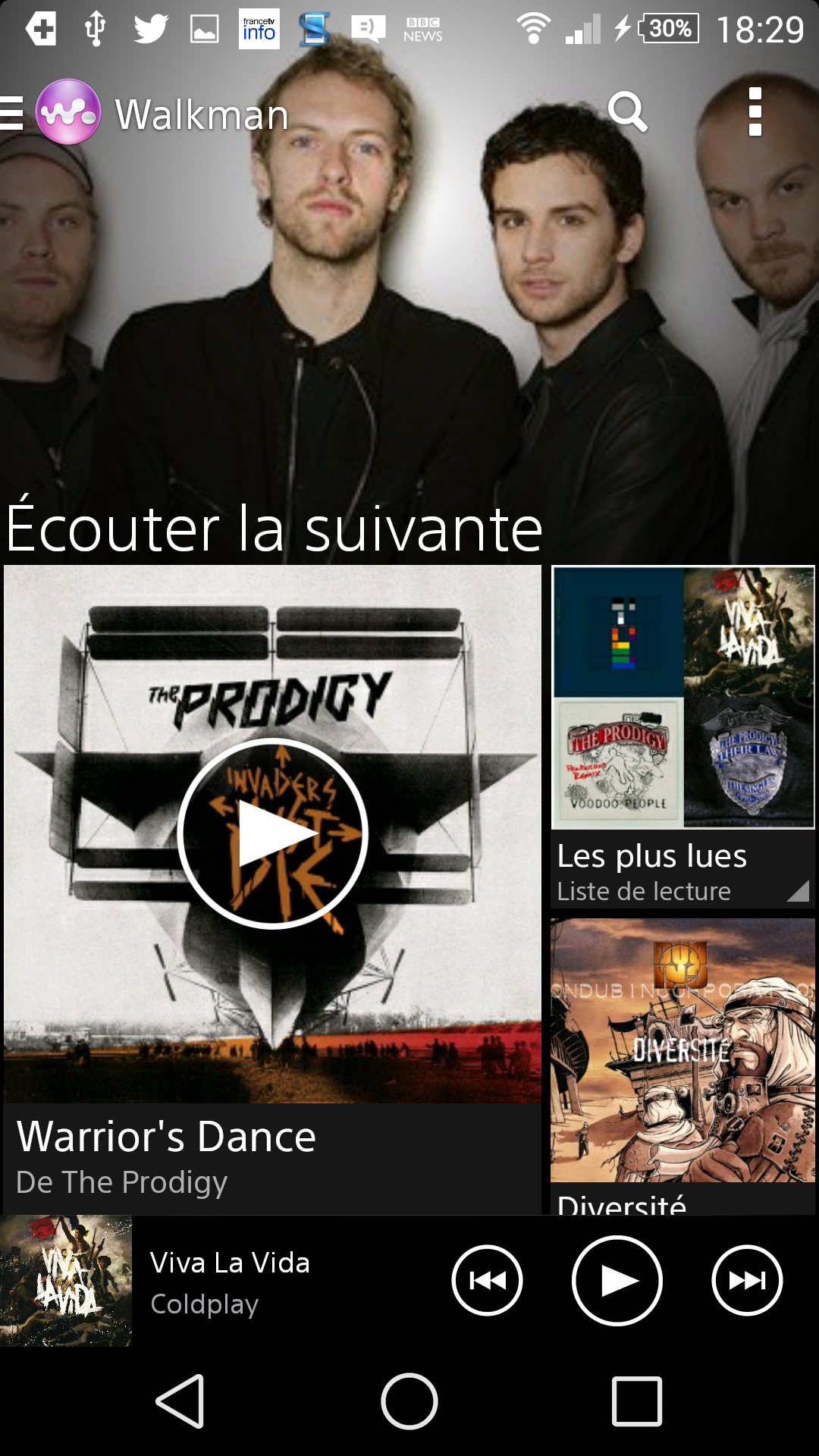 L'application Walkman de Sony